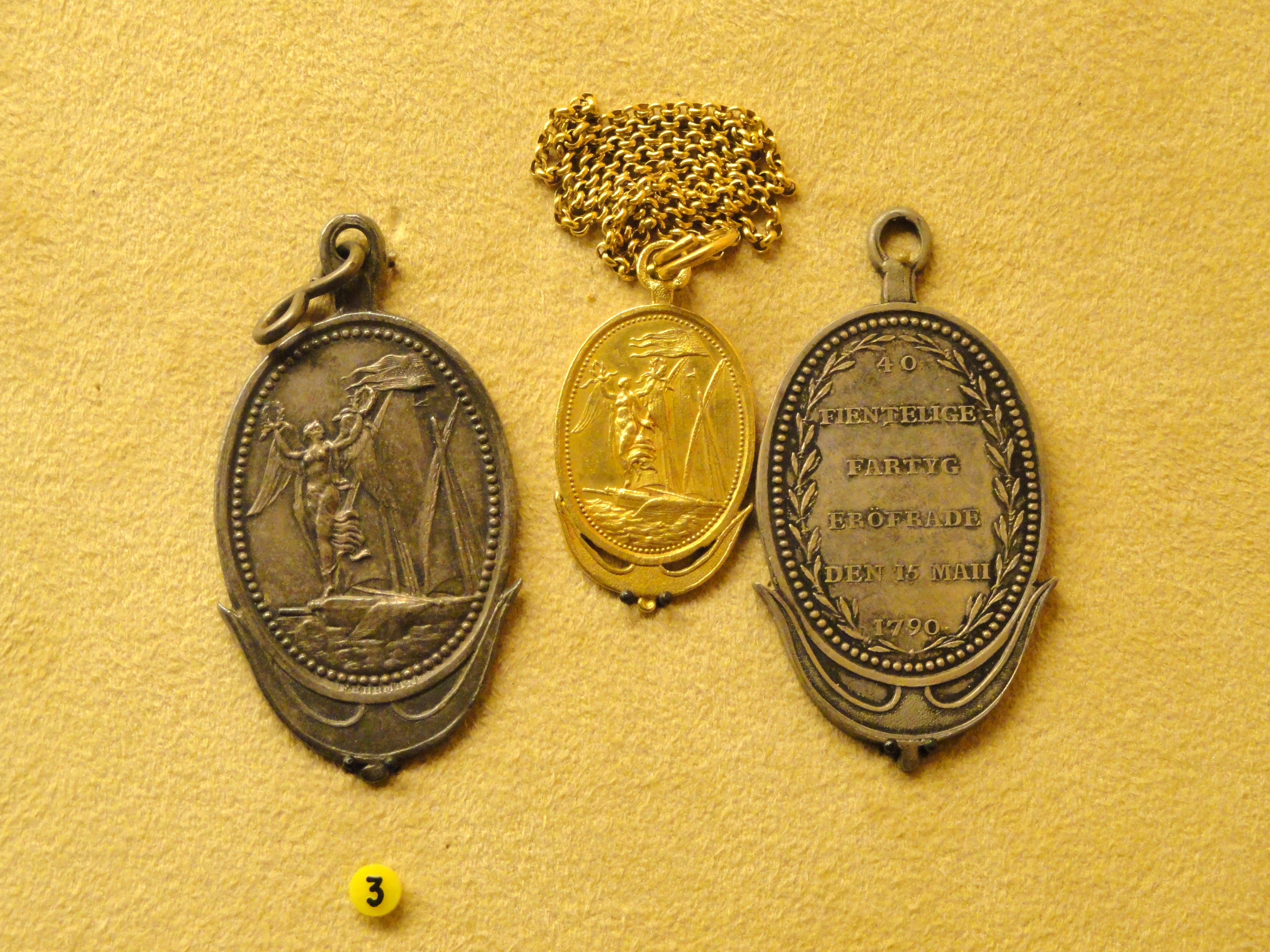 Coin / medal in the National Museum of Finland, Helsinki, Finland. This artwork is in the public domain because the artist(s) died more than 70 years ago.